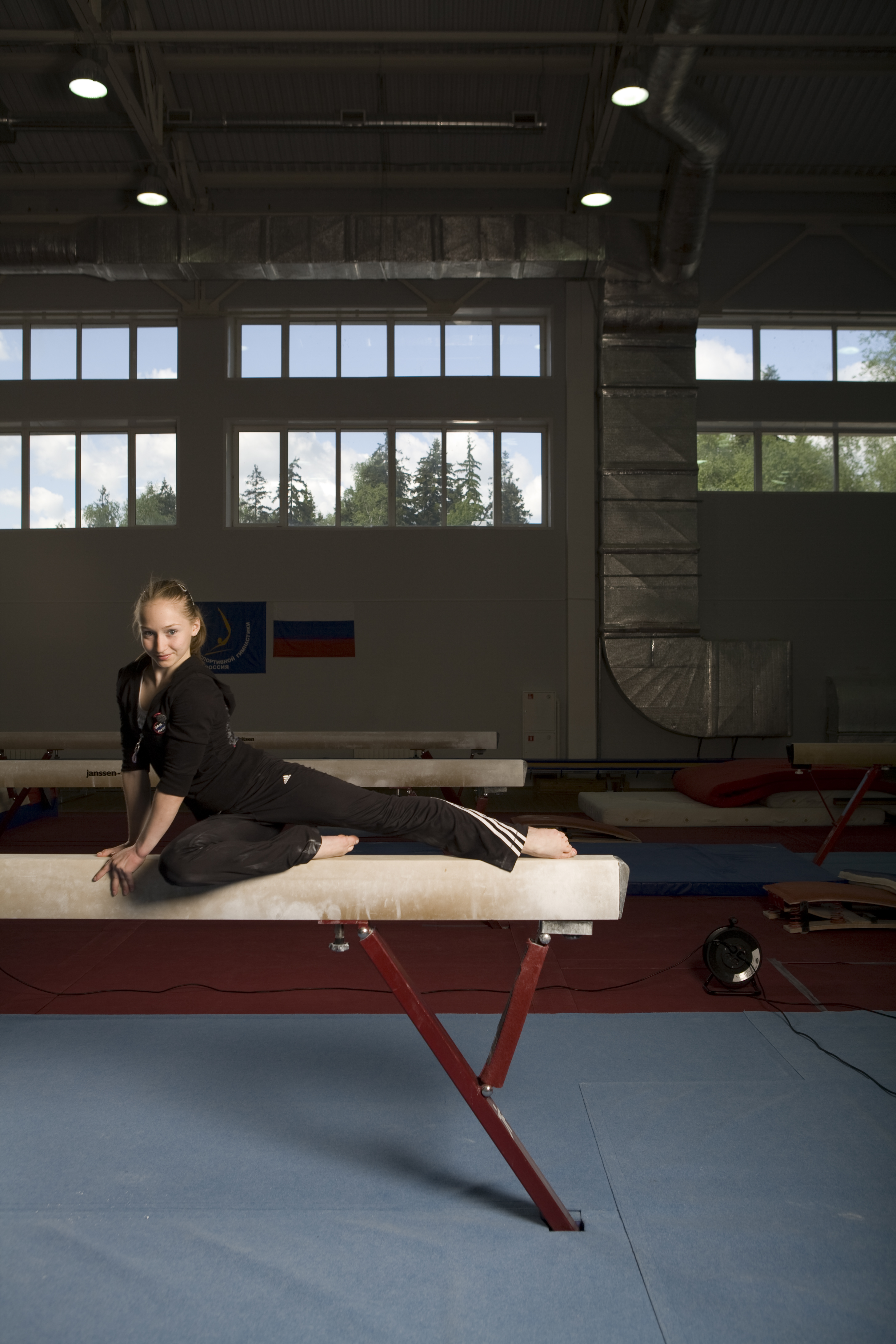 Semenova Ksenia, russian artistic gymnast